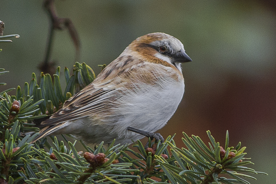 The species Rufous-necked Snowfinch had been photographed at Pangolakha Wildlife Sanctuary during GoingWild's birding trip at East Sikkim, India on 18.10.2015.